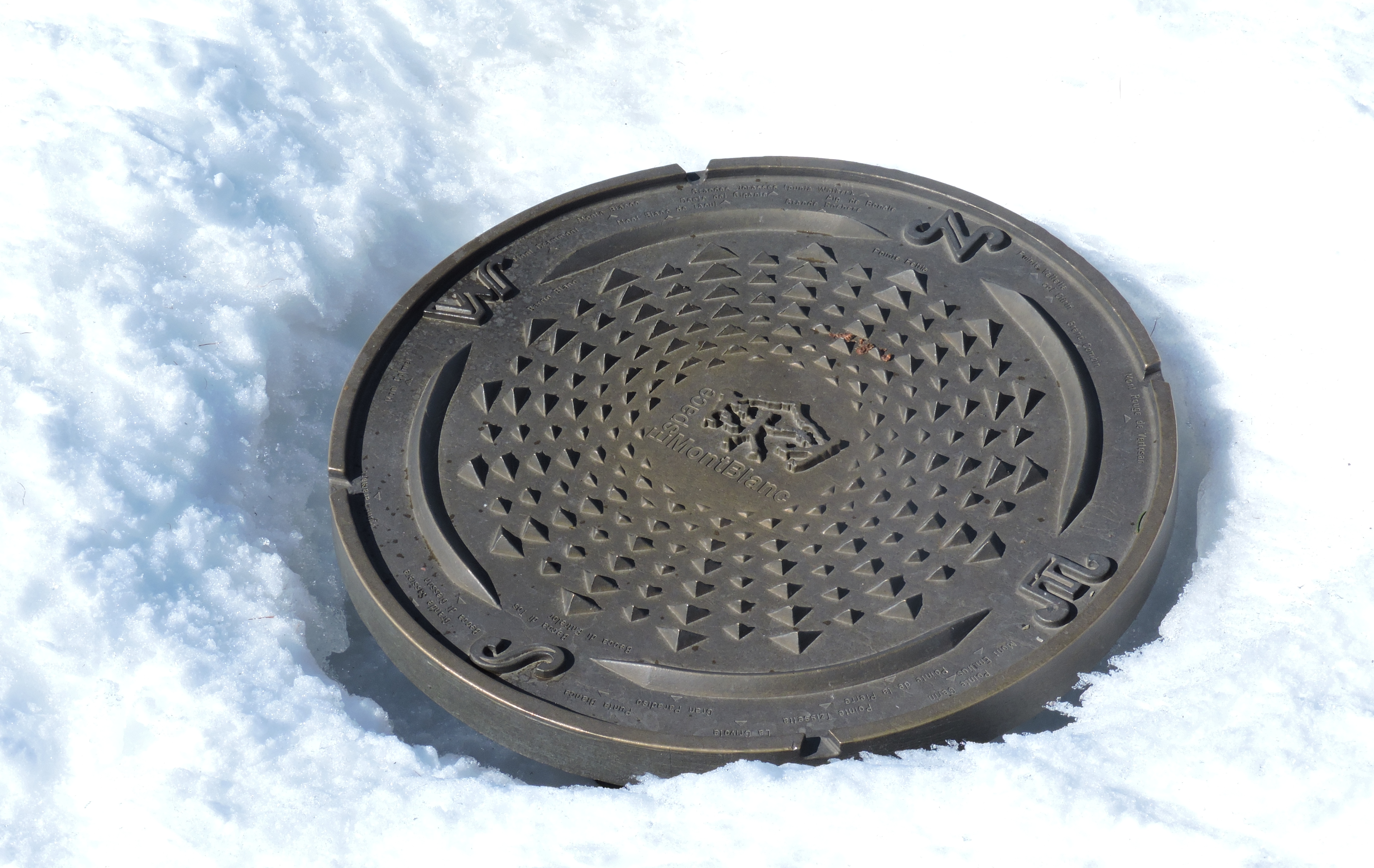 Court de Bard (Penine Alps, Aosta Valley, IT)ː orientation plaque on its summit